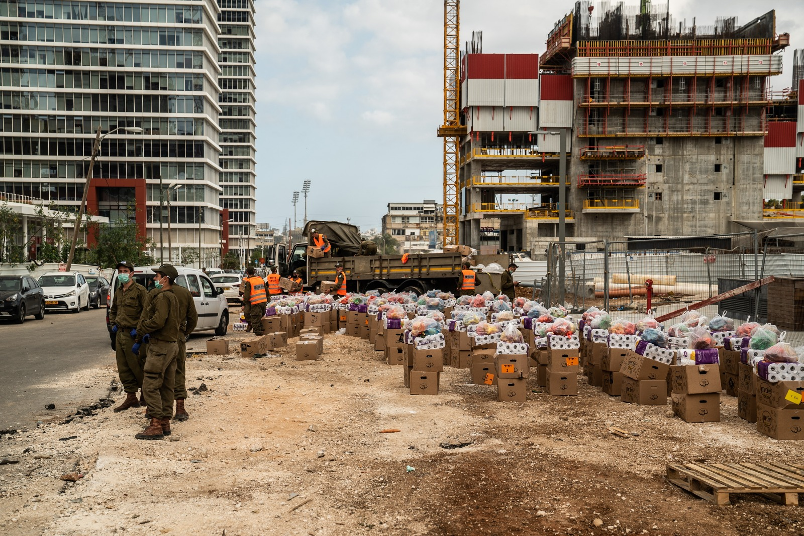 Depicted place: Bnei Brak